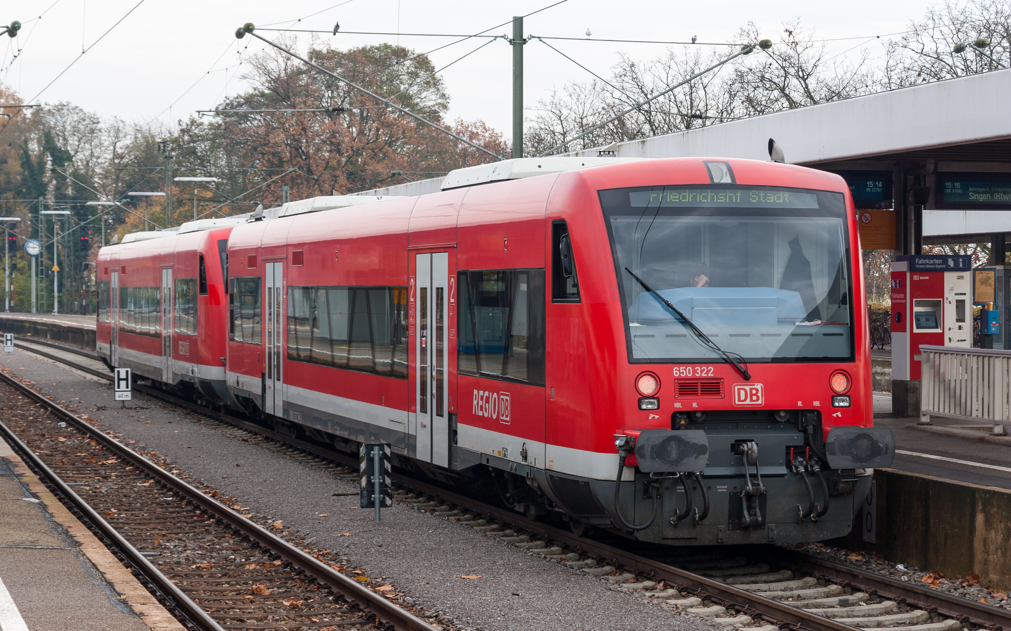 DBAG-Class 650 made by Stadler Rail in Radolfzell, Lake of Constance.